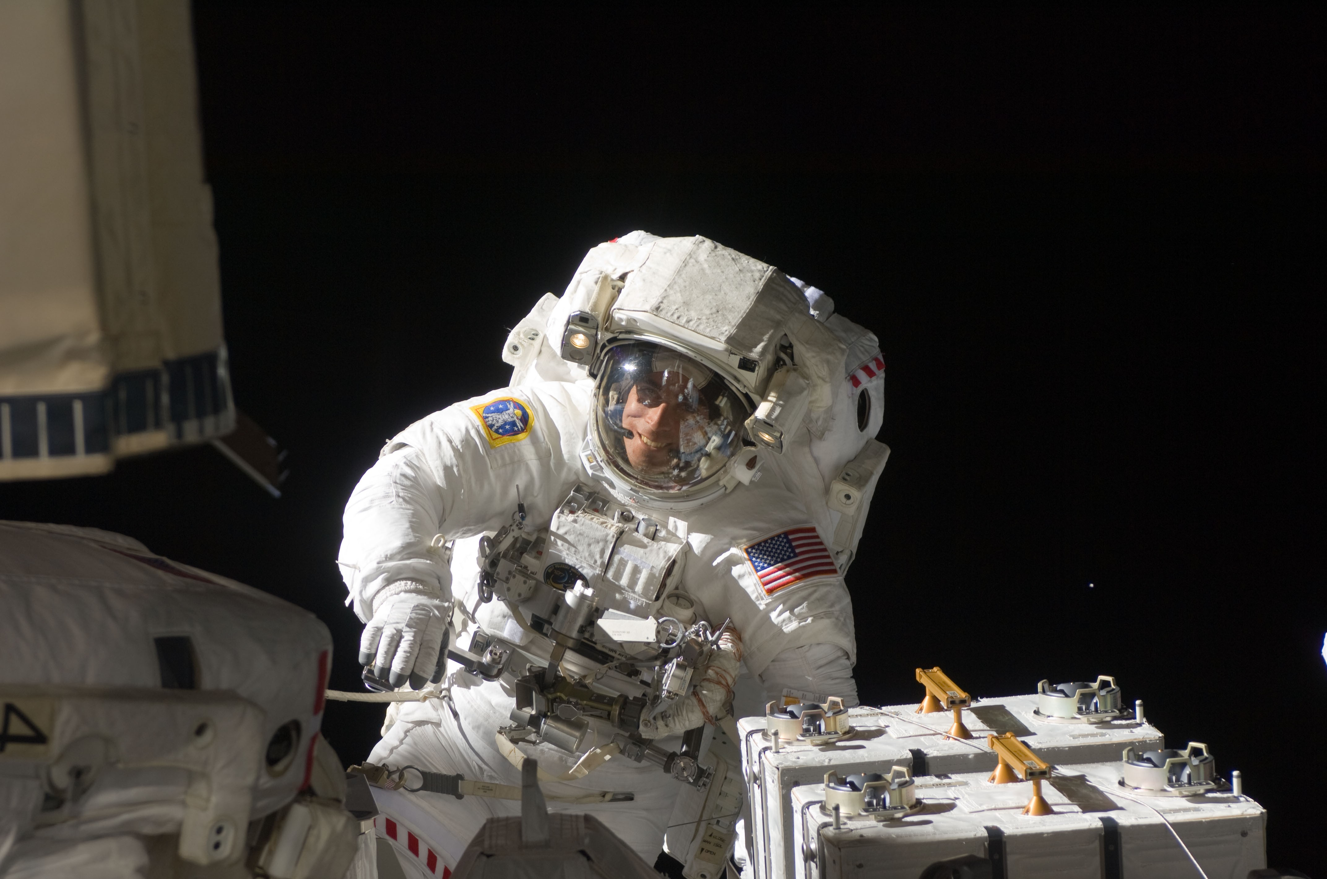 Astronaut Christopher Cassidy, STS-127 mission specialist, participates in the mission's fifth and final session of extravehicular activity (EVA) as construction and maintenance continue on the International Space Station. During the four-hour, 54-minute spacewalk, Cassidy and astronaut Tom Marshburn (out of frame), mission specialist, secured multi-layer insulation around the Special Purpose Dexterous Manipulator known as Dextre, split out power channels for two space station Control Moment Gyroscopes, installed video cameras on the front and back of the new Japanese Exposed Facility and performed a number of "get ahead" tasks, including tying down some cables and installing handrails and a portable foot restraint to aid future spacewalkers.